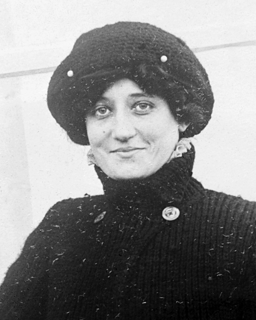 Raymonde de Laroche (1886 – 1919) posing in front of the her plane.